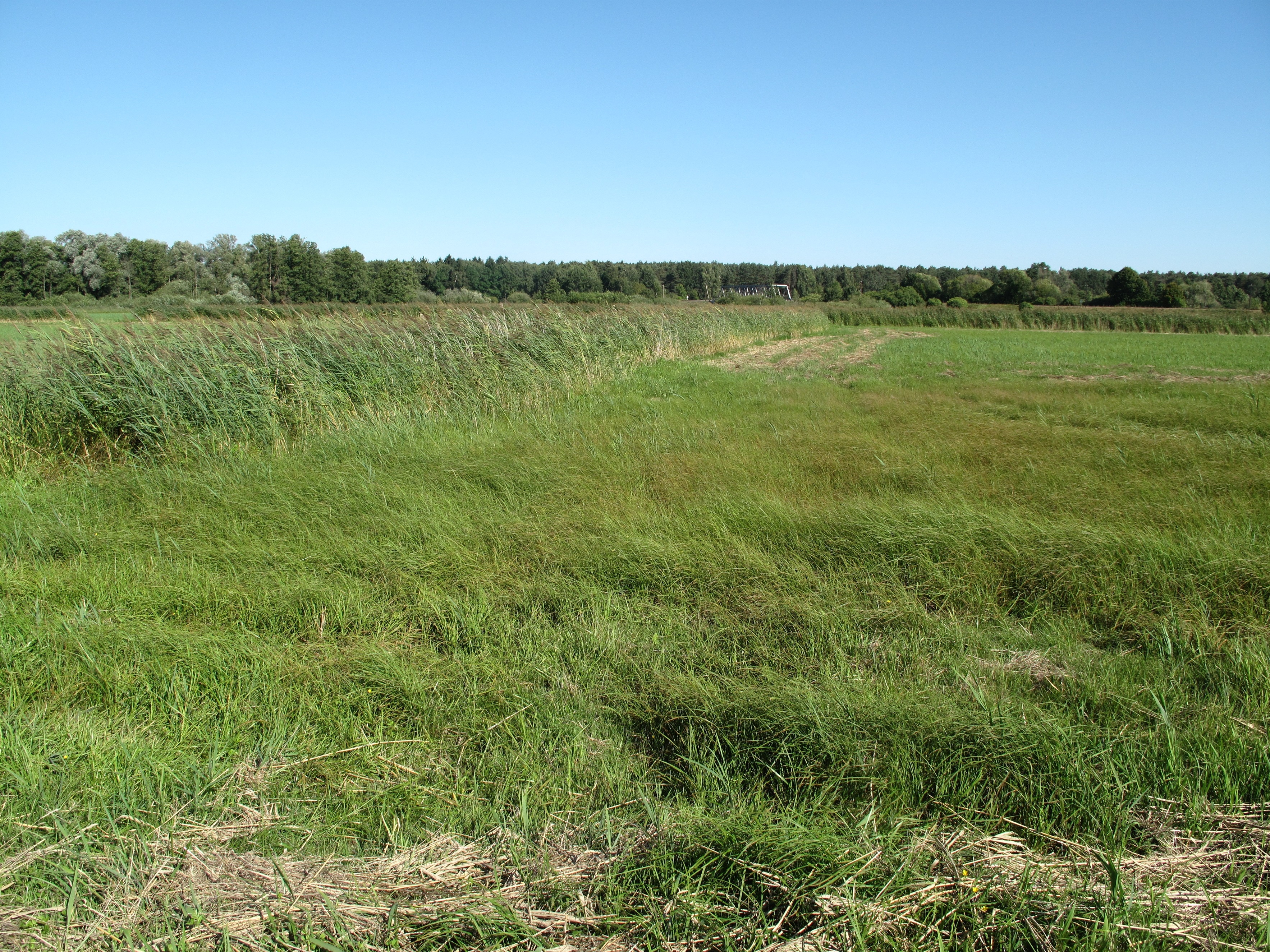 The „Naturschutzgebiet Luchwiesen“ is a Naturschutzgebiet (protected area) and Natura 2000-area in the district Oder-Spree in Brandenburg, Germany. It is situated in the territory of the town Storkow and in the territory of Storkow’s Ortsteil (quarter)) Philadelphia (village). The area covers 109,57 hectare, is flown by the Storkower Kanal (water canal) and is placed in the Dahme-Heideseen Nature Park. It is characterised among others by inland salt marsh-meadows and makes up according to the German Federal Agency for Nature Conservation (Bundesamt für Naturschutz – BfN) the largest and most important inland salt marsh in Brandenburg.